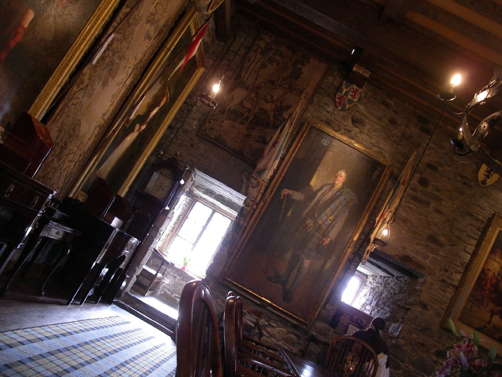 Inside Eilean Donan Castle 05